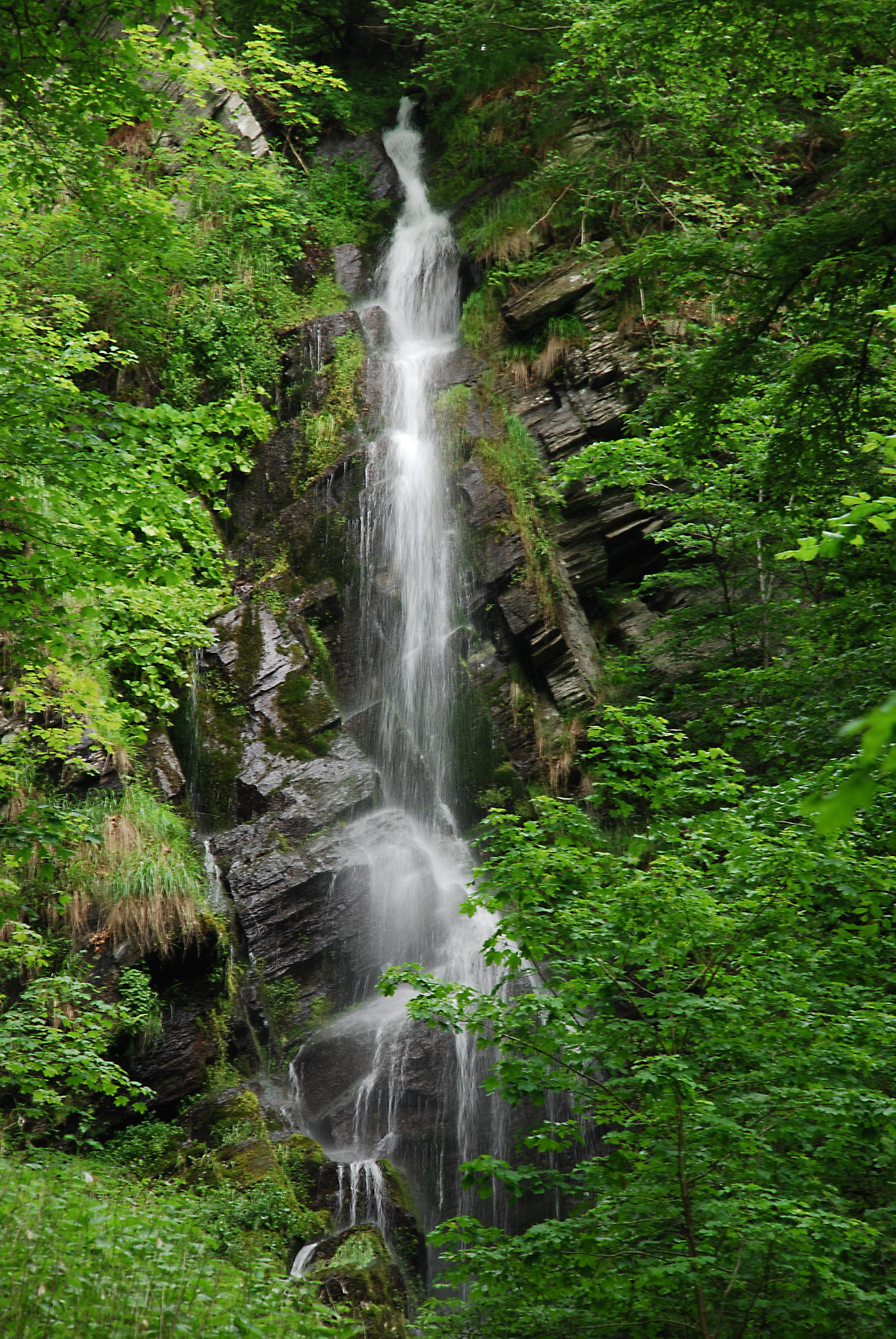 "Plästerlegge" waterfall in "Plästerlegge–Auf’m Kipp" nature reserve, Bestwig, Hochsauerlandkreis, North Rhine-Westphalia, Germany